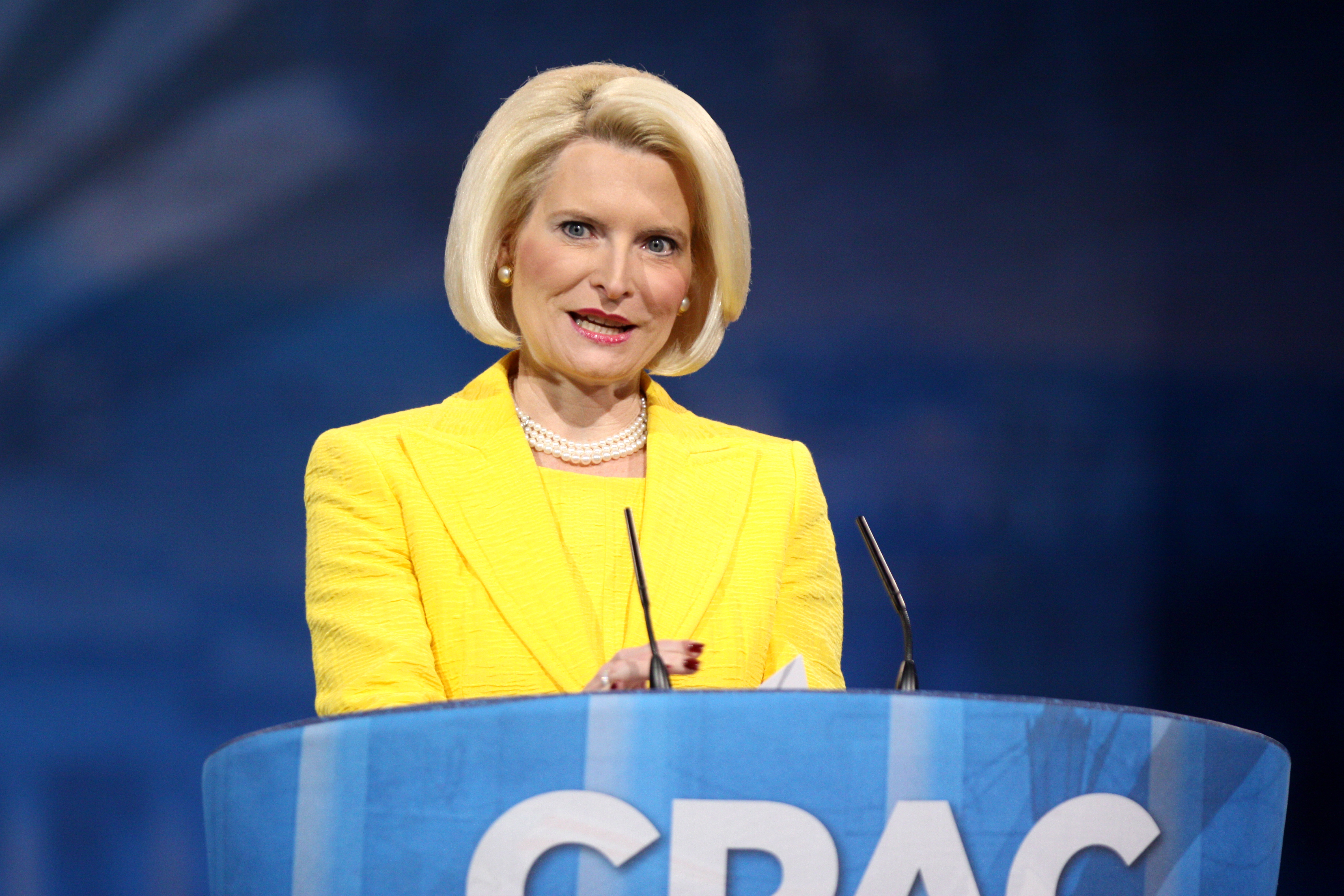 Callista Gingrich speaking at the 2013 Conservative Political Action Conference (CPAC) in National Harbor, Maryland.